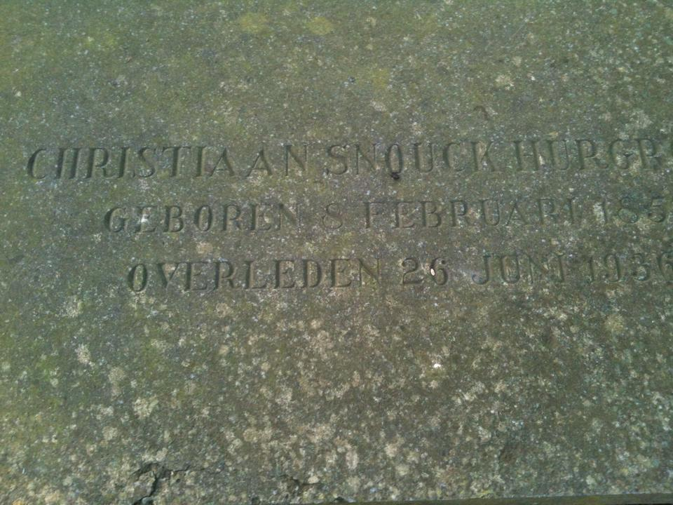 Graveyard Groenesteeg, Leiden (The Netherlands). Grave of Christiaan Snouck Hurgronje (1857-1936).